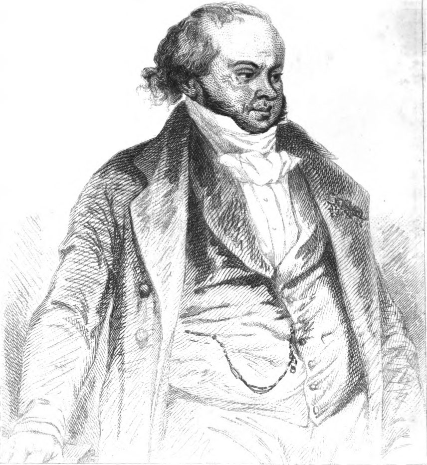 Portrait engraving of Louis Véron (1798 – 1867), director of the Paris Opera from 1831 to 1835